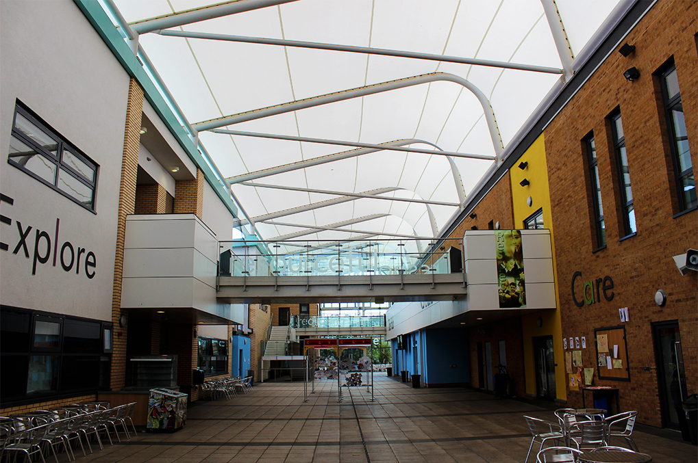 The JLV is part of Cramlington Learning Village's campus and includes a central 'street' area.